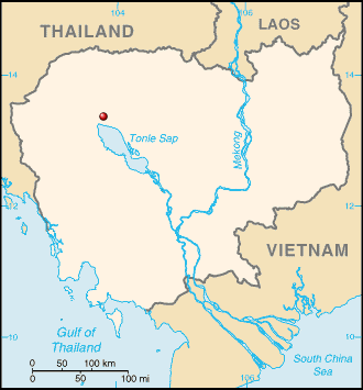 Location of Siem Reap in Cambodia